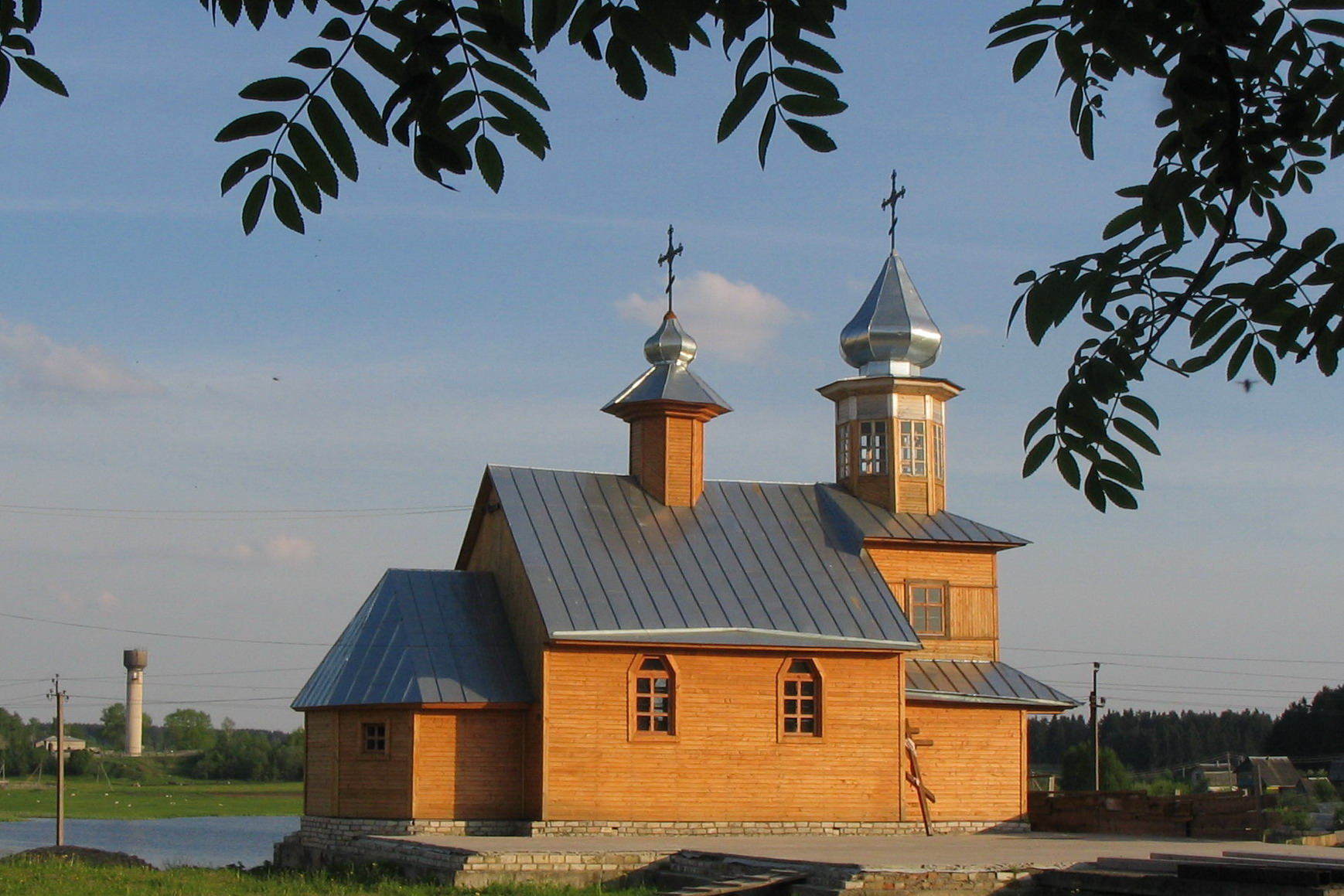 Saint Nicholas church in Kokhanava.